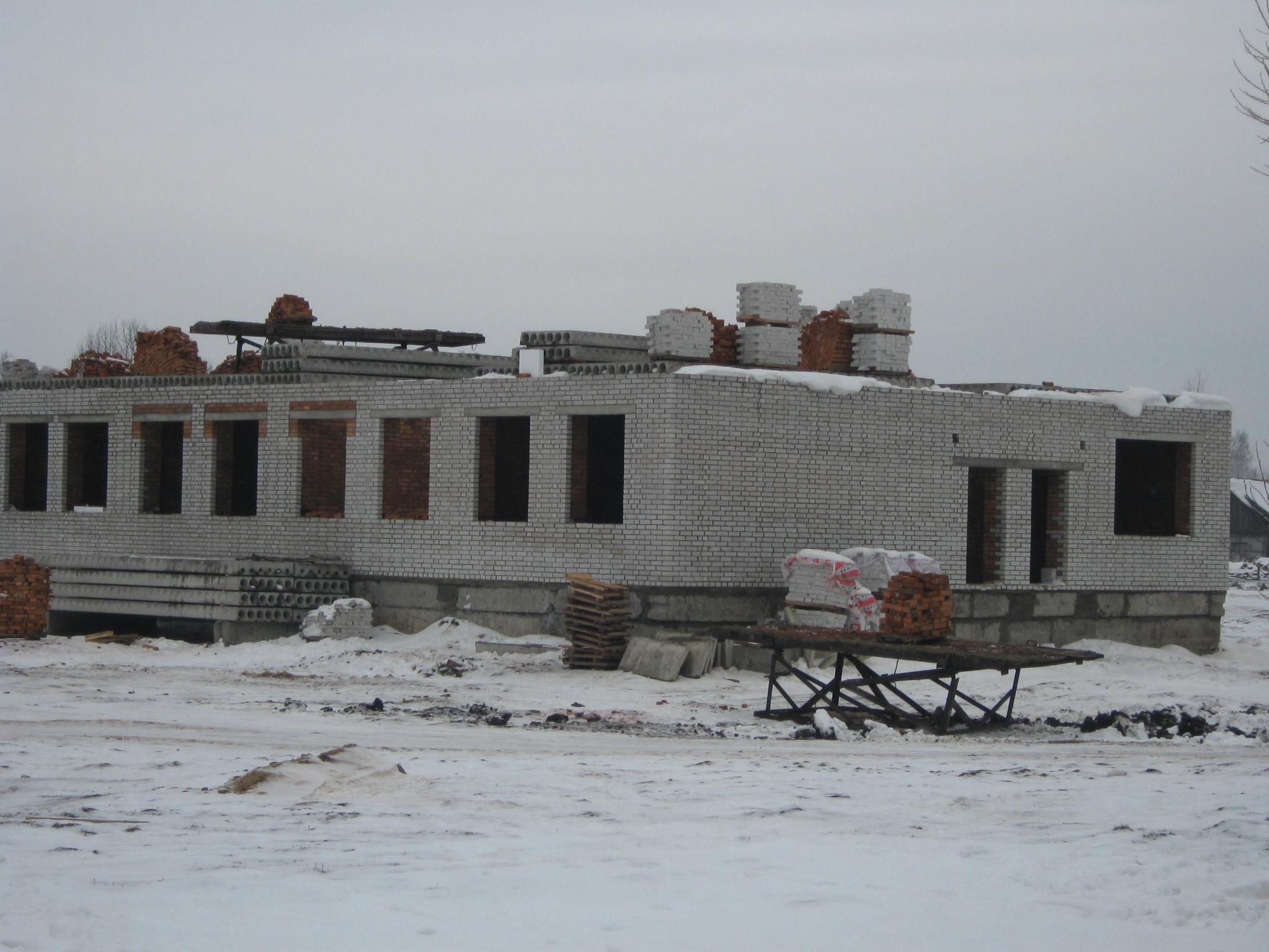 будівництво школи 3